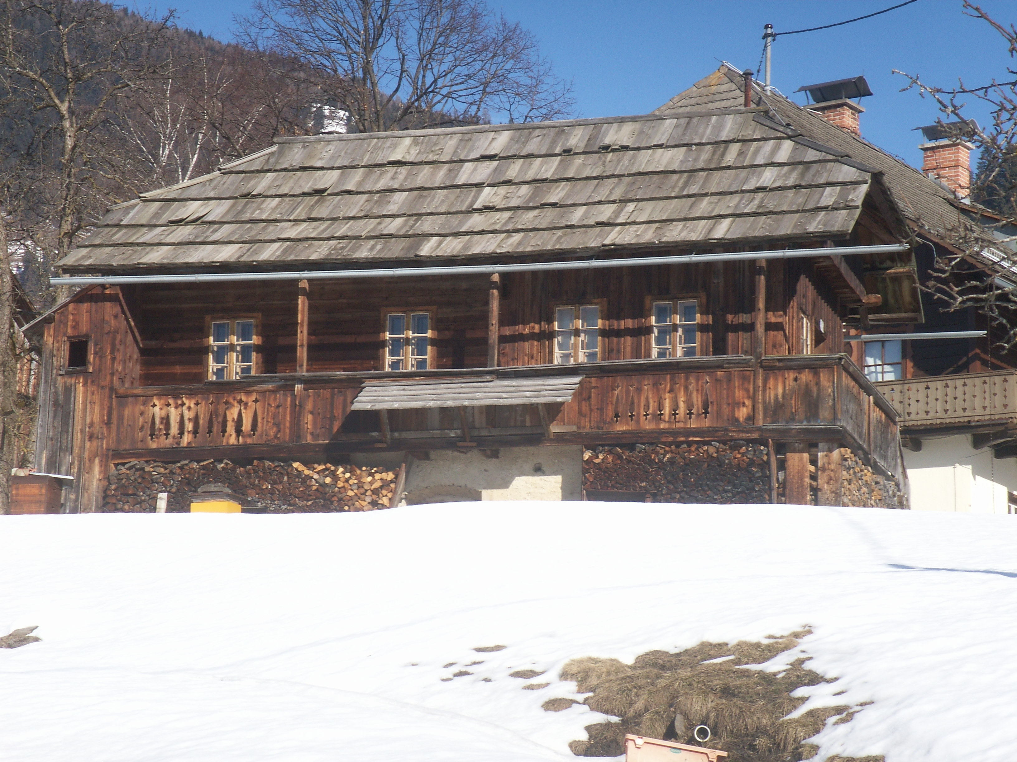 Old farmbuilding (farmer's life interest) in Obermillstatt near Lake Millstatt (Millstätter See), district Spittal an der Drau in Carinthia / Austria / EU.